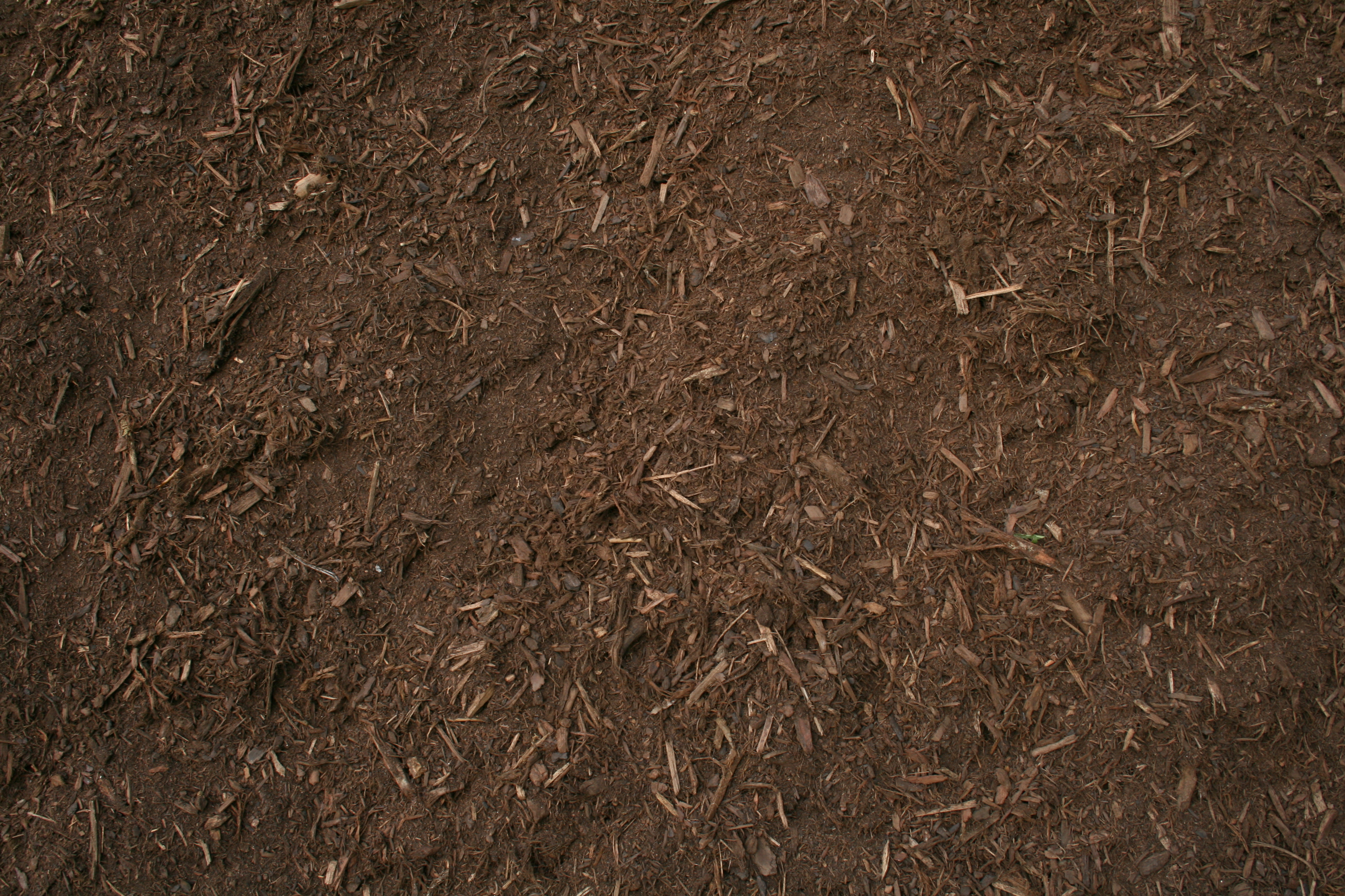 Mulch.